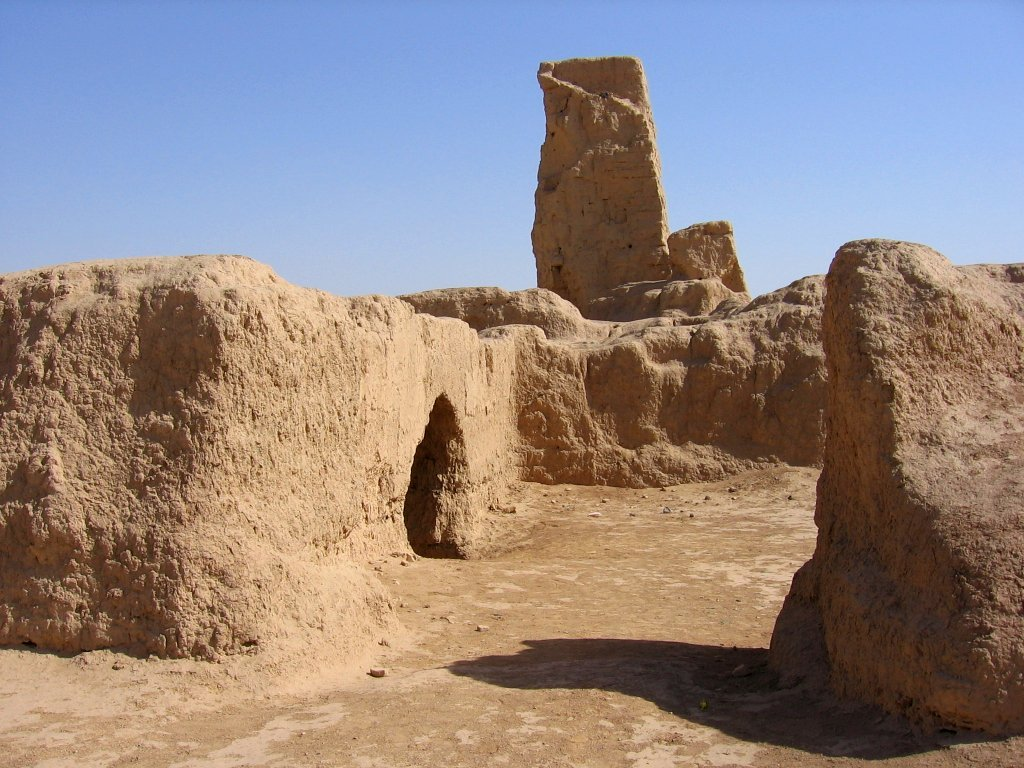 The ruins of Ancient city of Gaochang: Gaochang was built in I century BC. Was an important site along the Silk Road. We still can see old palace ruins and inside and outside cities. It's located 30 Km from Turpan.